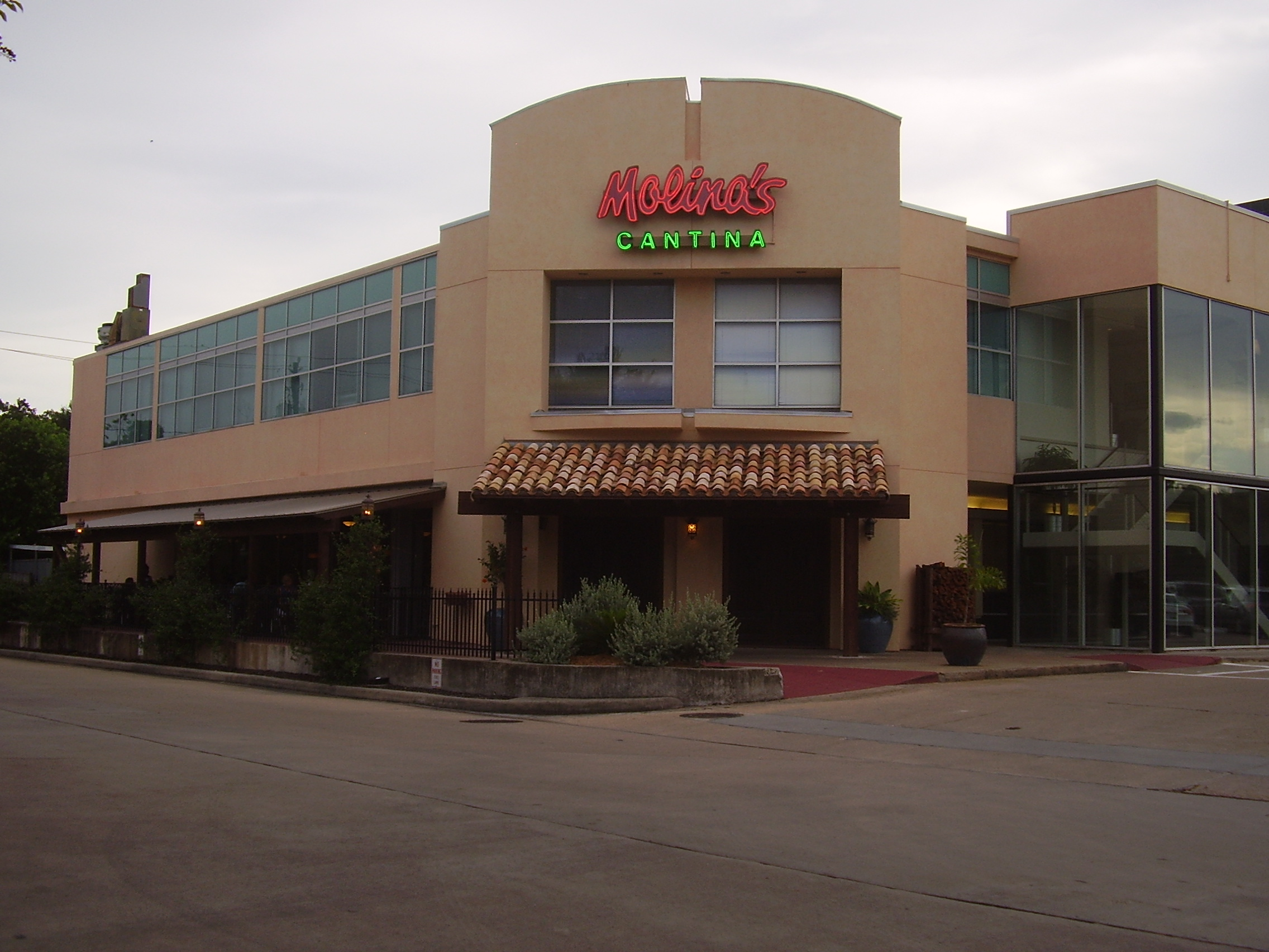 Molina's Cantina in the Braes Heights Shopping Center in Southside Place, Texas - 3801 Bellaire Boulevard, Houston, TX